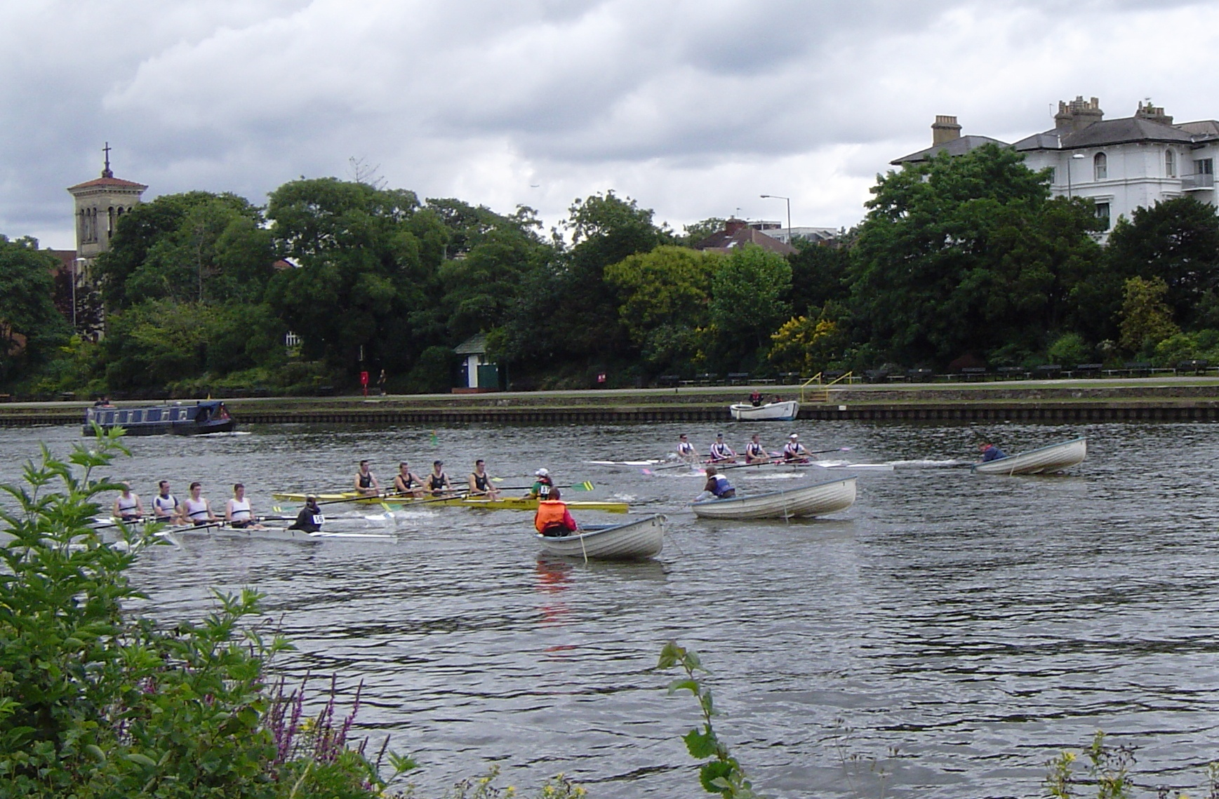 Kingston Regatta - start by Ravens Ait